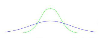 This image is an altered version of Image:Normal distribution pdf.png, which is a Wikimedia GFDL image, with permission given, to anyone to copy and/or modify this image for use in Wikipedia. DRosenbach (Talk